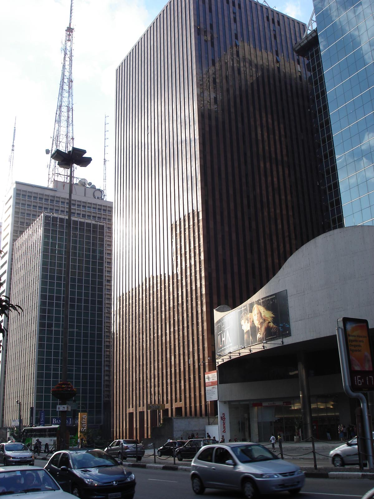 Buildings in the Paulista Avenue.